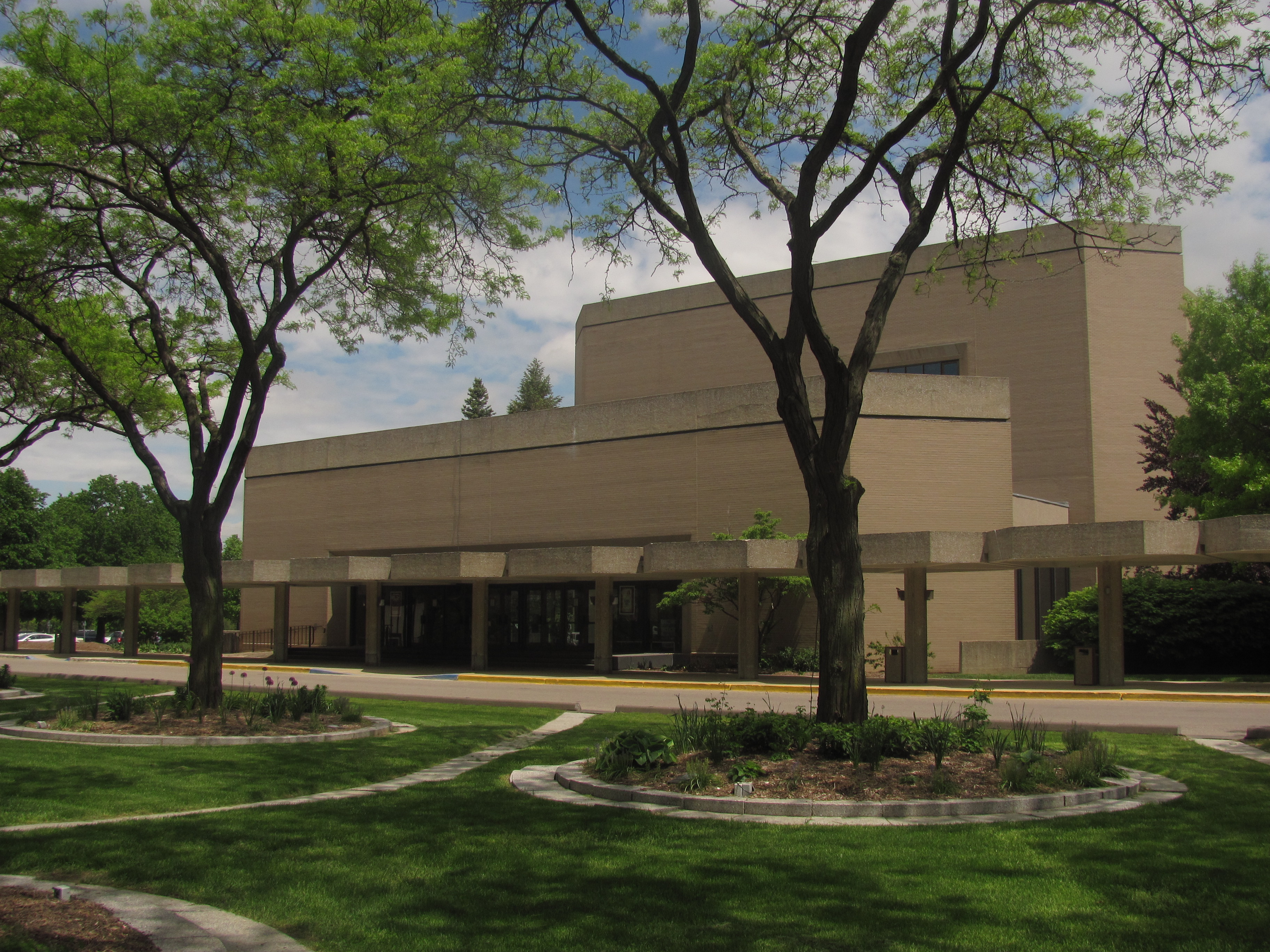 The Whiting on the Flint Cultural Center Campus.